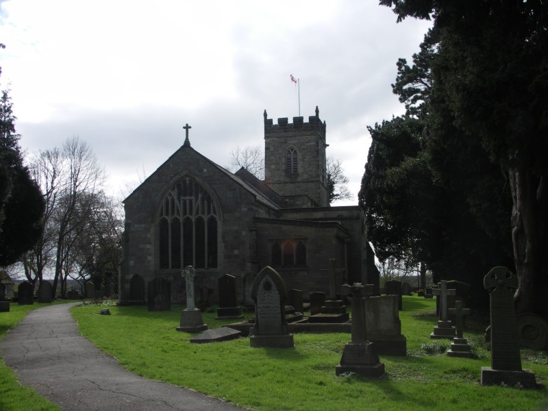 Egglescliffe Parish Church, in the village of Egglescliffe in the Diocese of Durham.